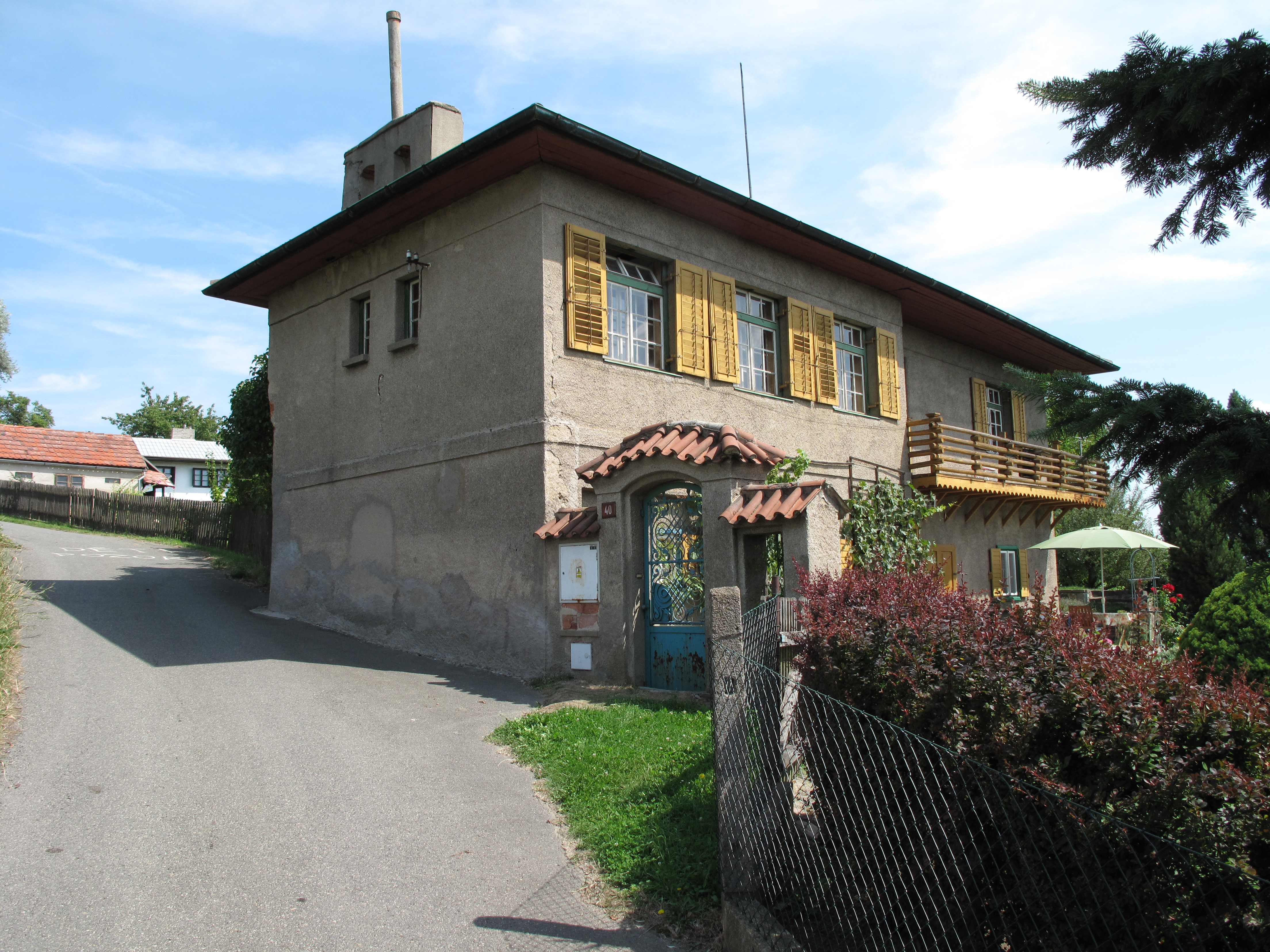 House in Dubiny, Prague-East District, Czech Republic.